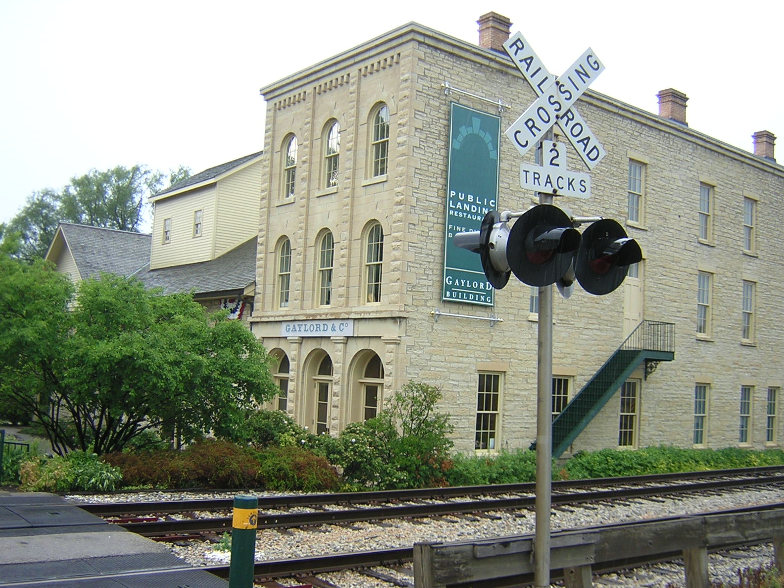 Gaylord Building in Lockport, Illinois taken from across Metra tracks.